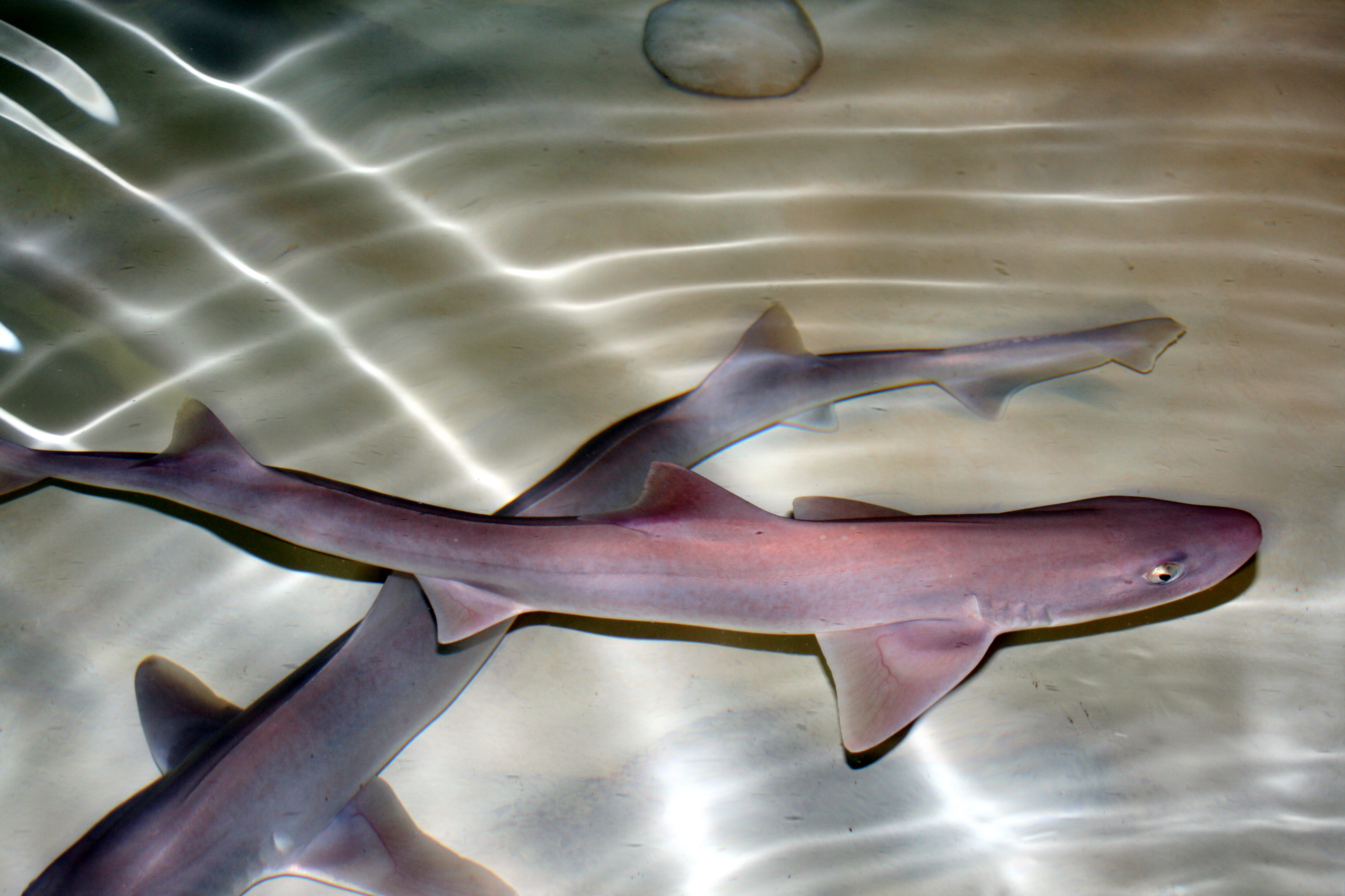 Smooth dogfish (Mustelus canis) at the Indianapolis Zoo